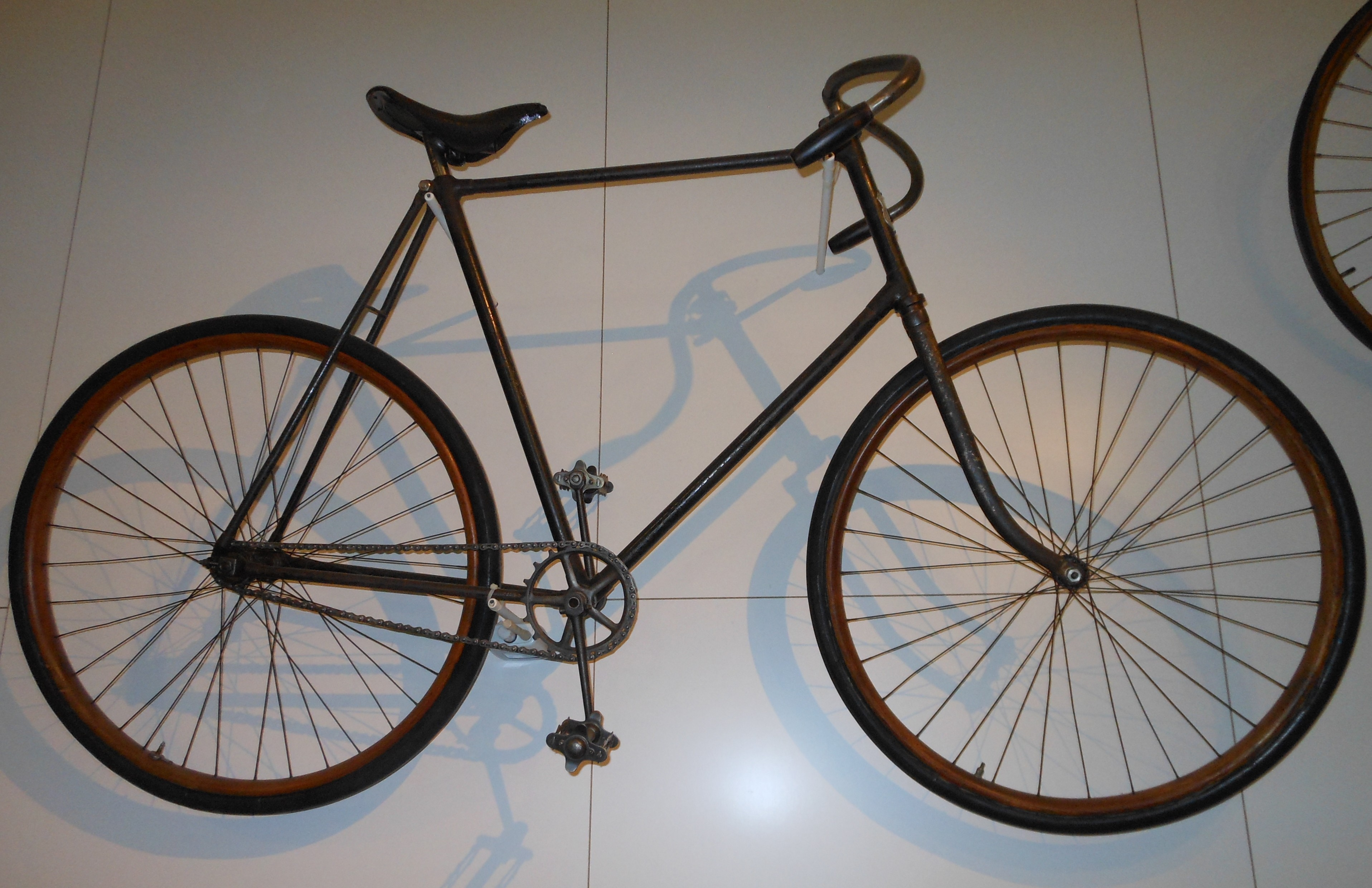 "Model D" - Racing bicycle, produced by the March-Davis Manufacturing Company of Chicago in 1894.